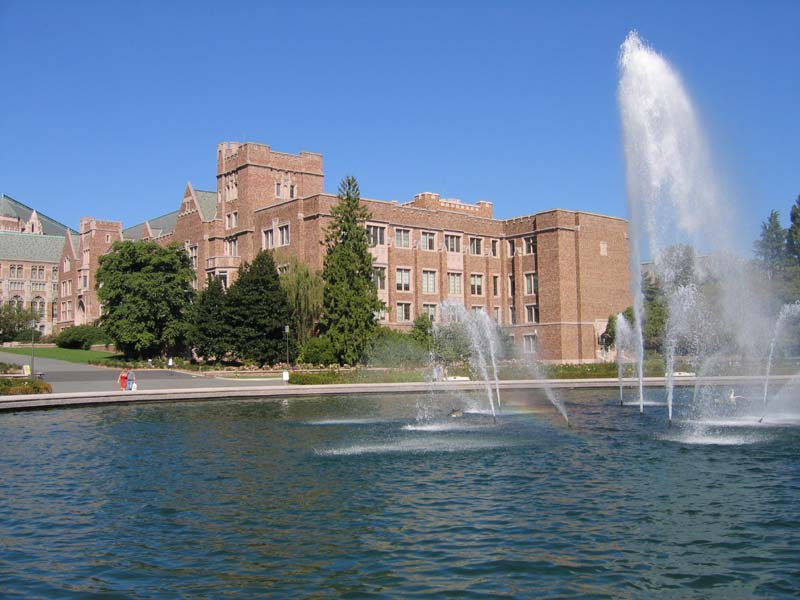 Drumheller Fountain and beyond it Mary Gates Hall at the University of Washington in Seattle